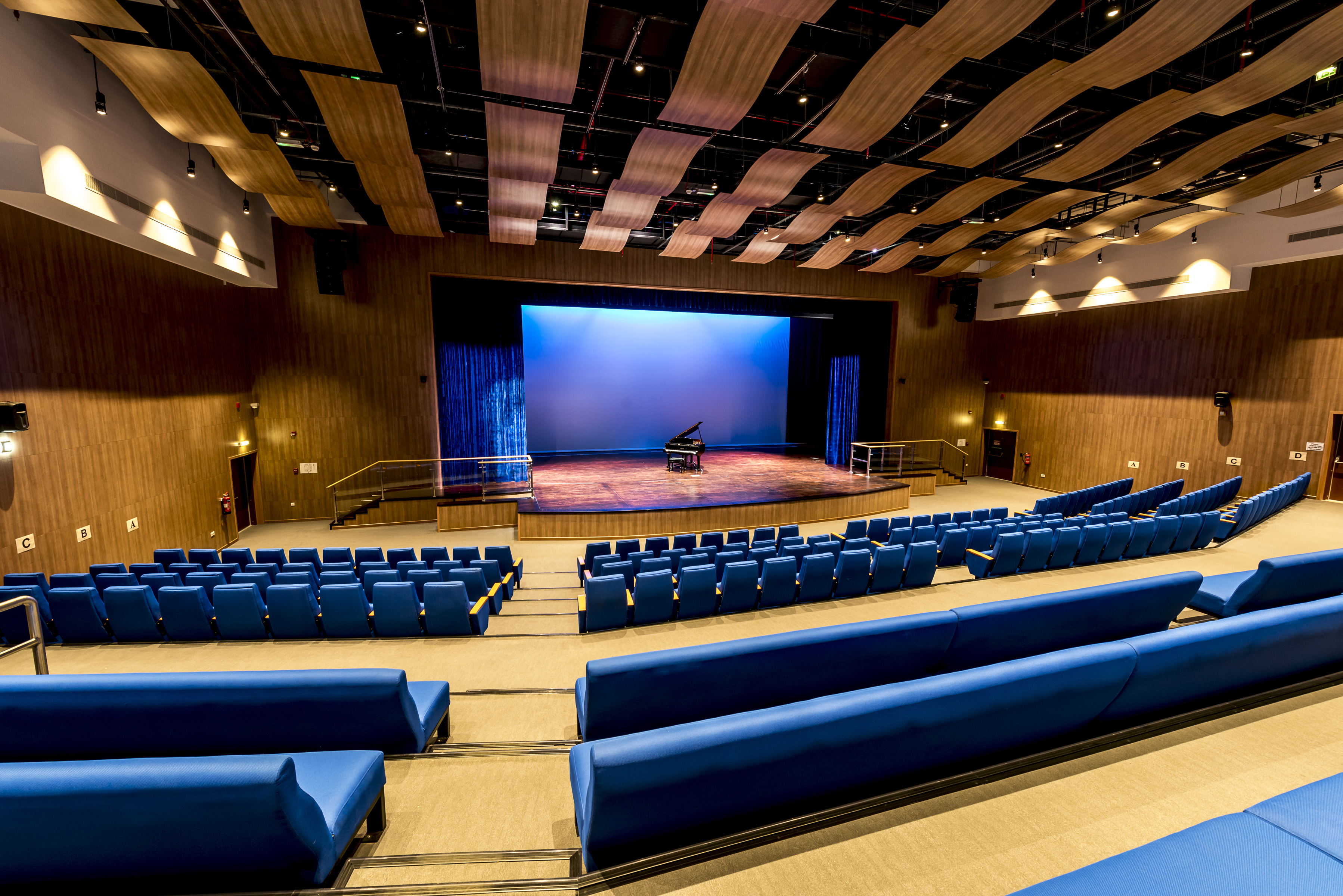 Auditorium